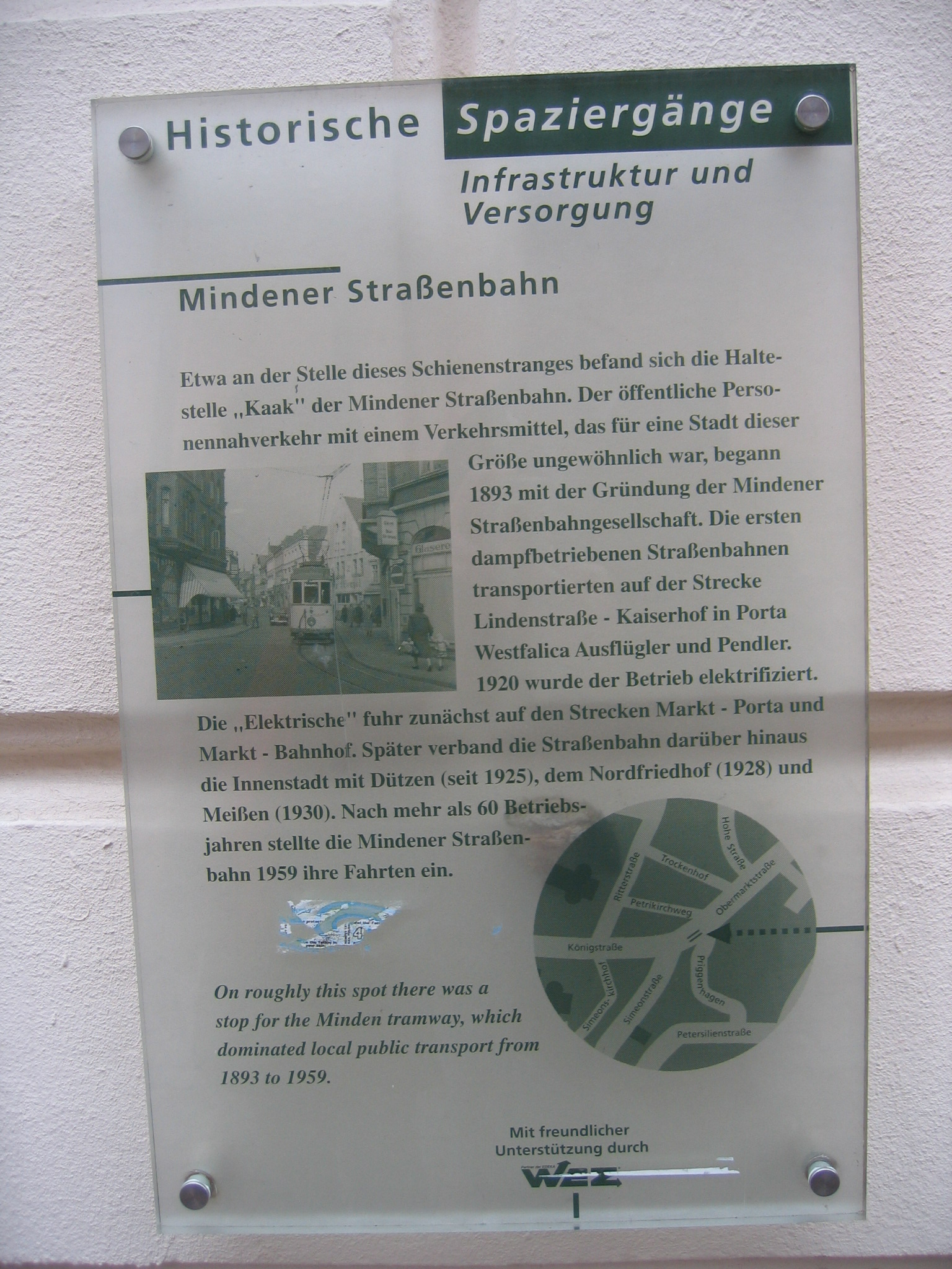 Sign in Minden, Minden-Lübbecke, North Rhine-Westphalia, Germany.